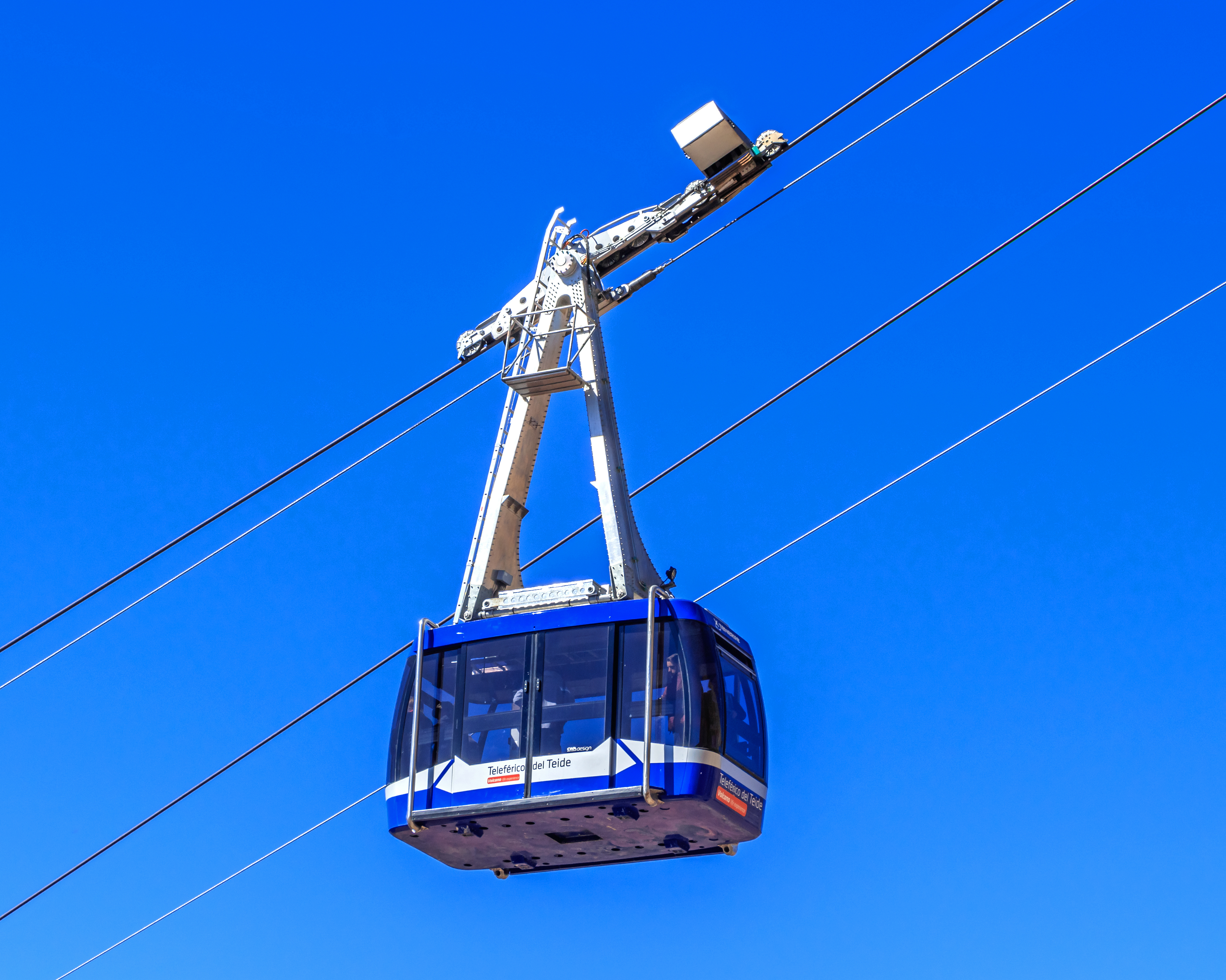 Teleférico del Teide (Teide Cableway), Mount Teide , Tenerife, Canary Islands, Spain.